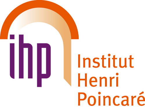 Institut Henri Poincaré Logotype